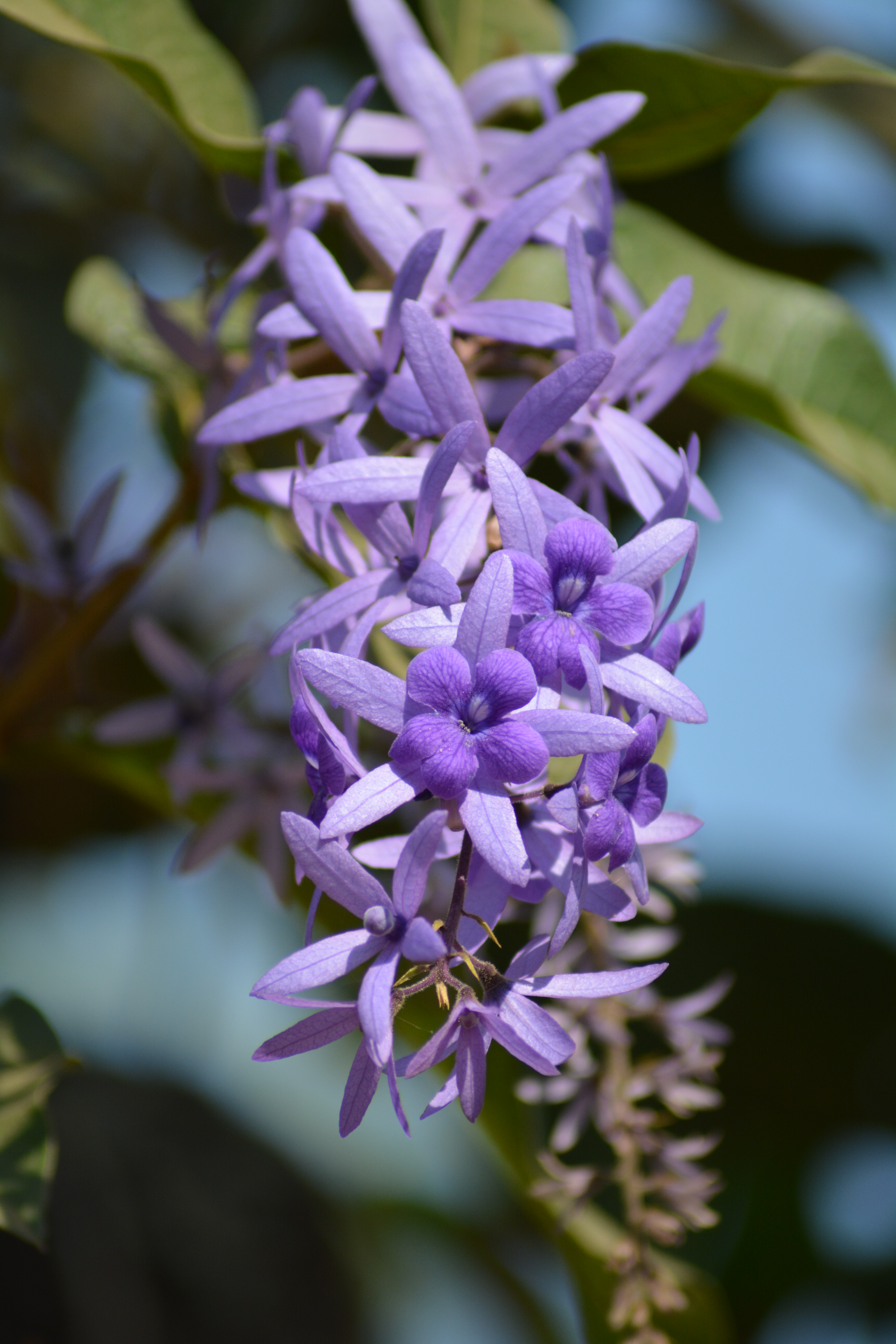 Photos from Ambalavayal 2017 by Vinayaraj